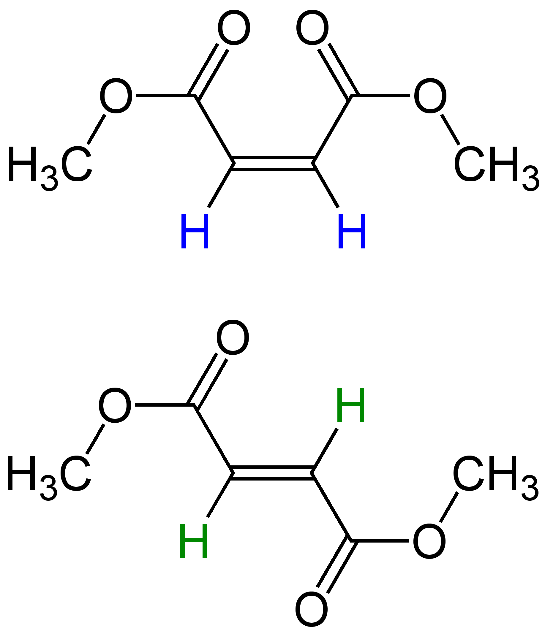 Vicinal_Protons